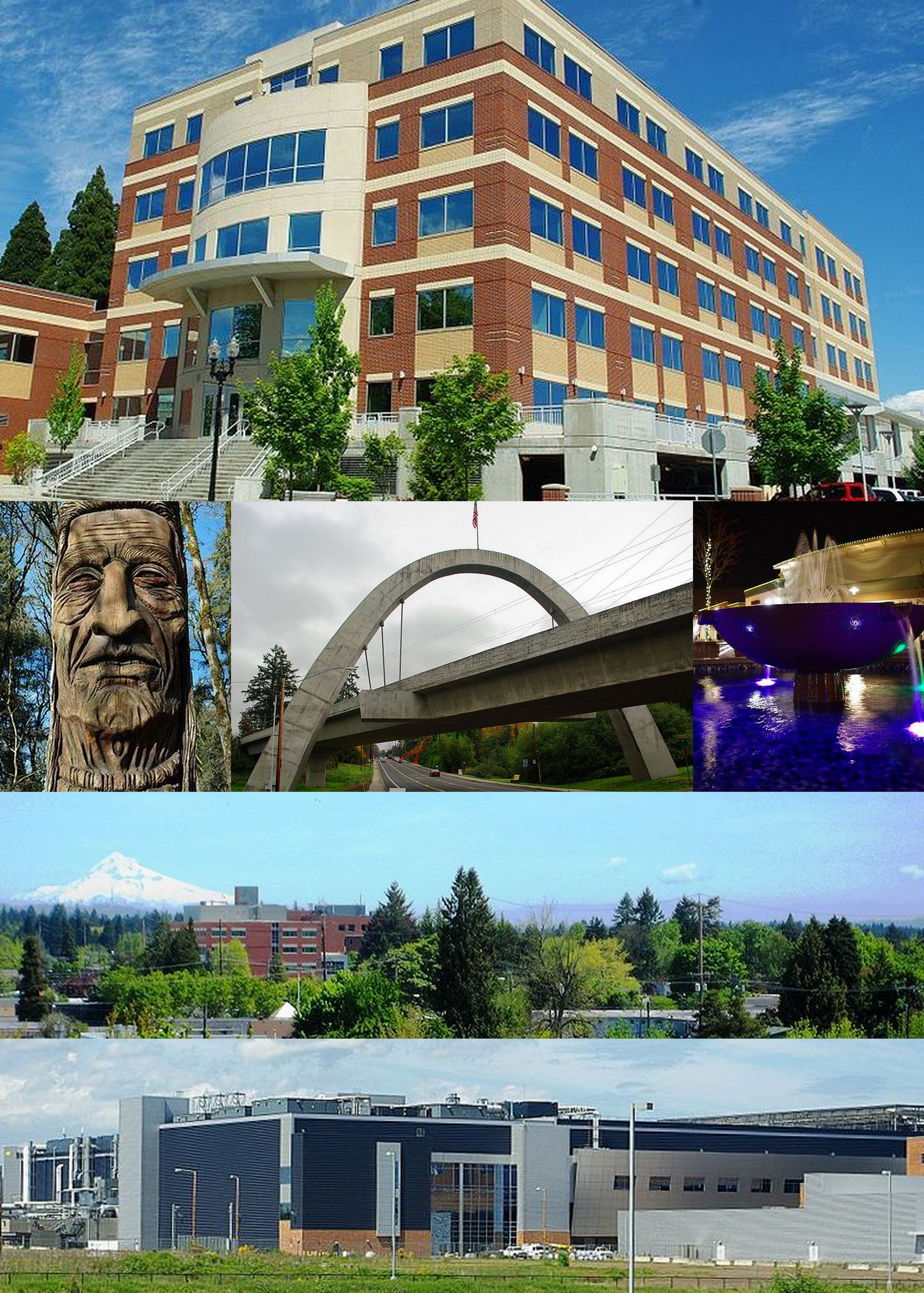 Collage of Hillsboro, Oregon, using pictures all taken by me.